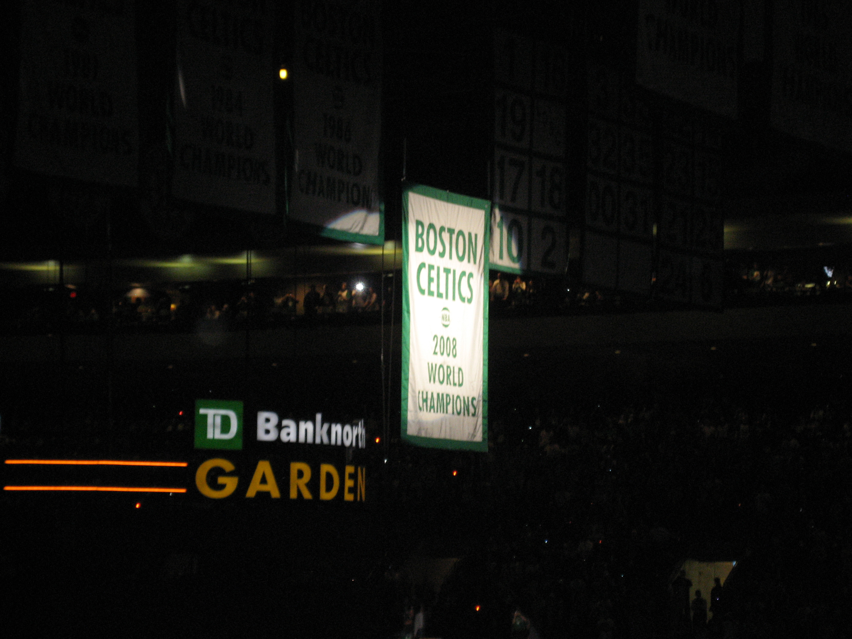 Banner of 17th championship.